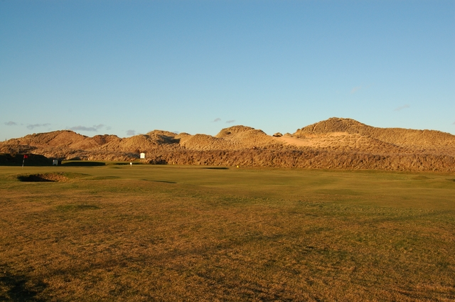 Sand dunes behind Fraserburgh Bay Looking at the back of the dunes from close to the club house of the local golf course.